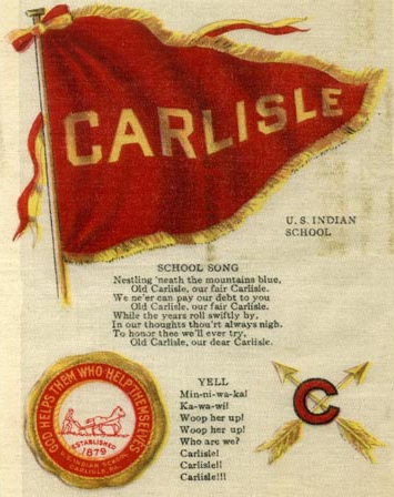 Carlisle Souvenir Tobacco Cloth with Carlisle Indian School pennant, school song, motto and yell. Cropped. Other information No.